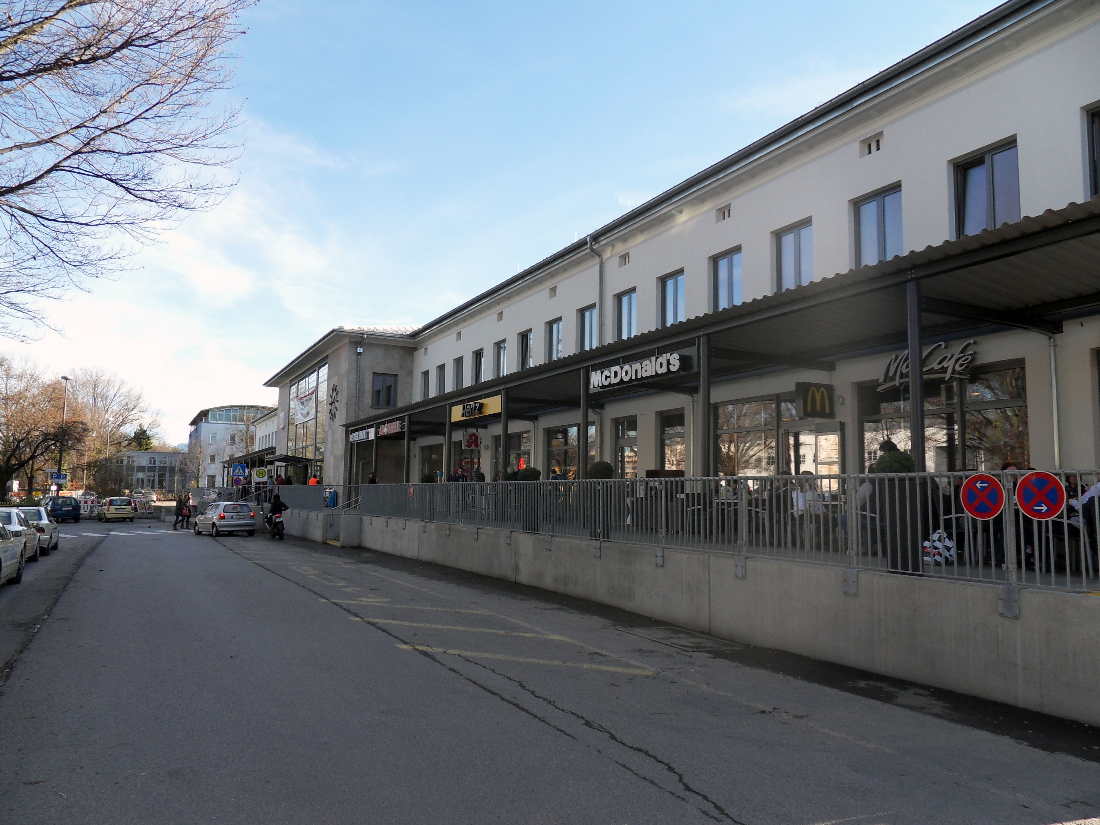 Train Station Rosenheim